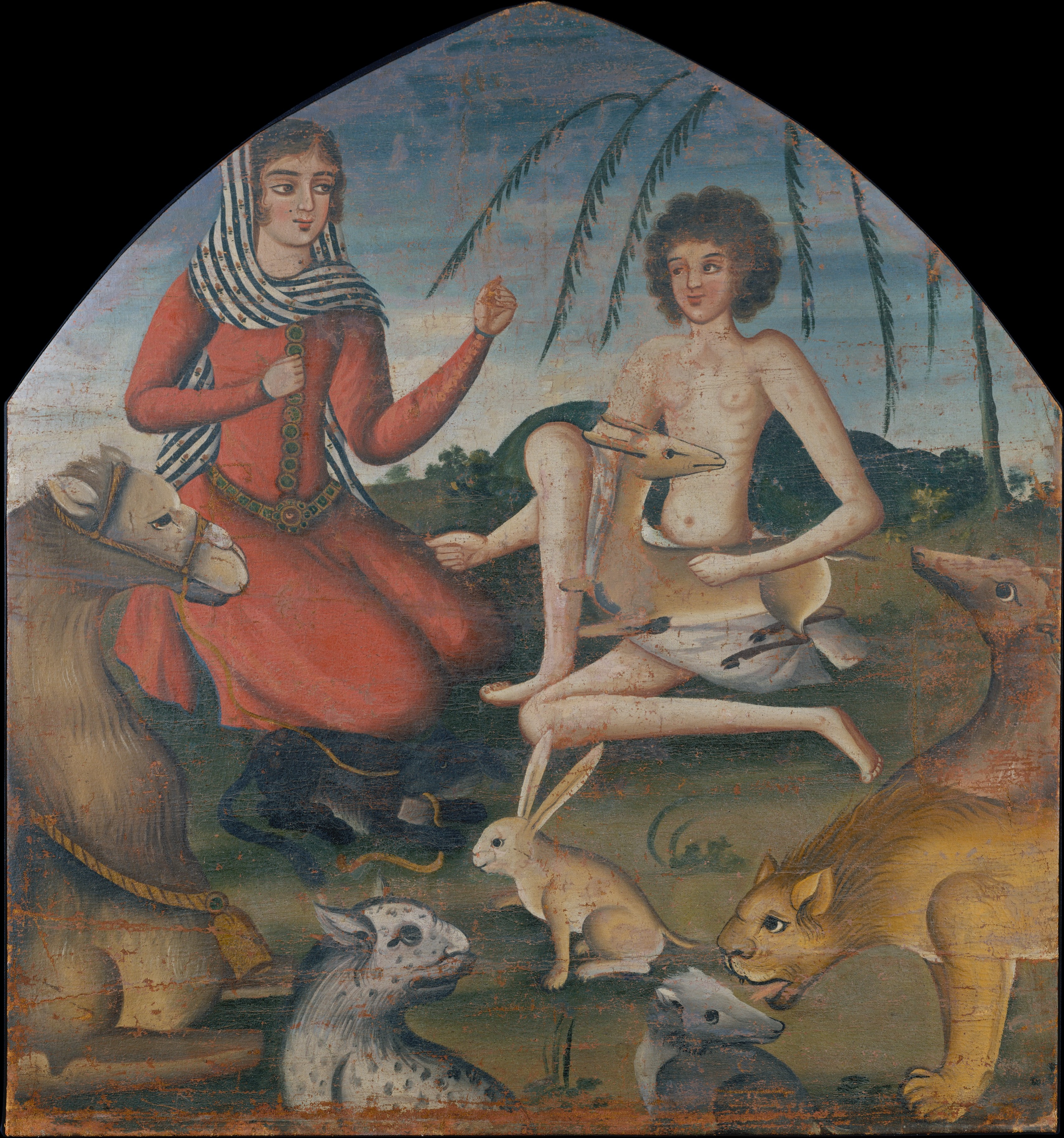 Illustrated single work; Codices